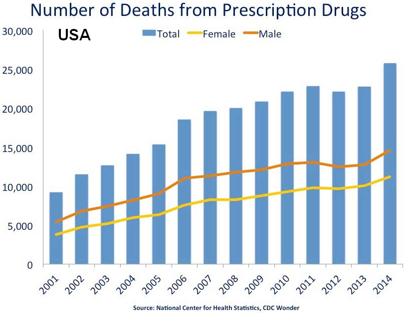 "National Overdose Deaths—Number of Deaths from Prescription Drugs. The figure above is a bar chart showing the total number of U.S. overdose deaths involving prescription drugs from 2001 to 2014. The chart is overlayed by a line graph showing the number of deaths by females and males. From 2001 to 2014 there was a 2.8-fold increase in the total number of deaths."